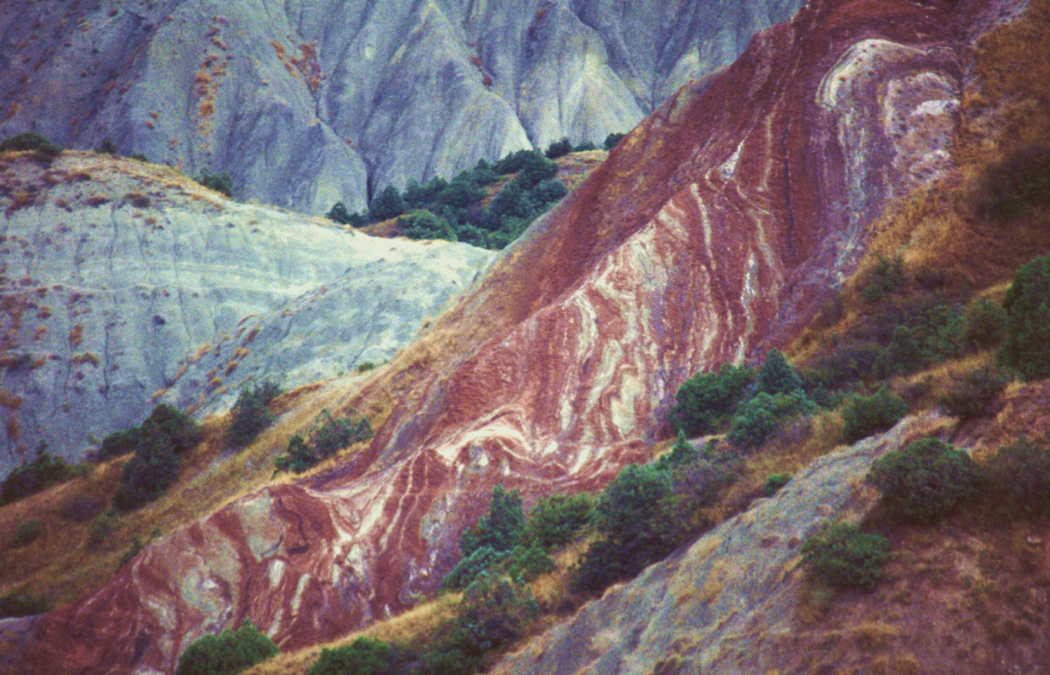 "Candy Cane Mountains" - Near Alti Agac, Azerbaijan